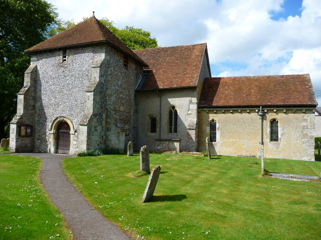 Bulford - St Leonards Church The building of a three stage tower to the church on poor foundations, led to the top stage being removed in the 16thC, leaving the rather squat tower that remains today.